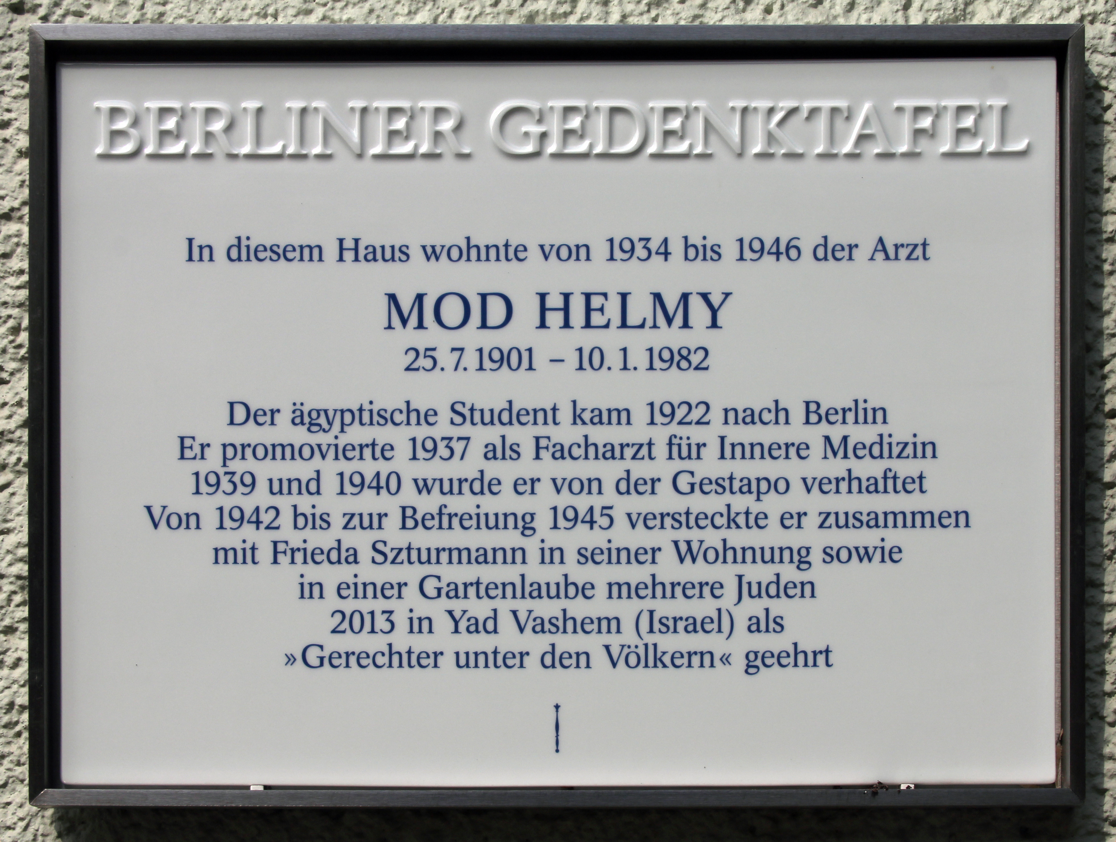 Berlin memorial plaque, Mod Helmy, Krefelder Straße 7, Berlin-Moabit, Germany